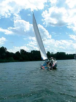 Jezioro Gopło